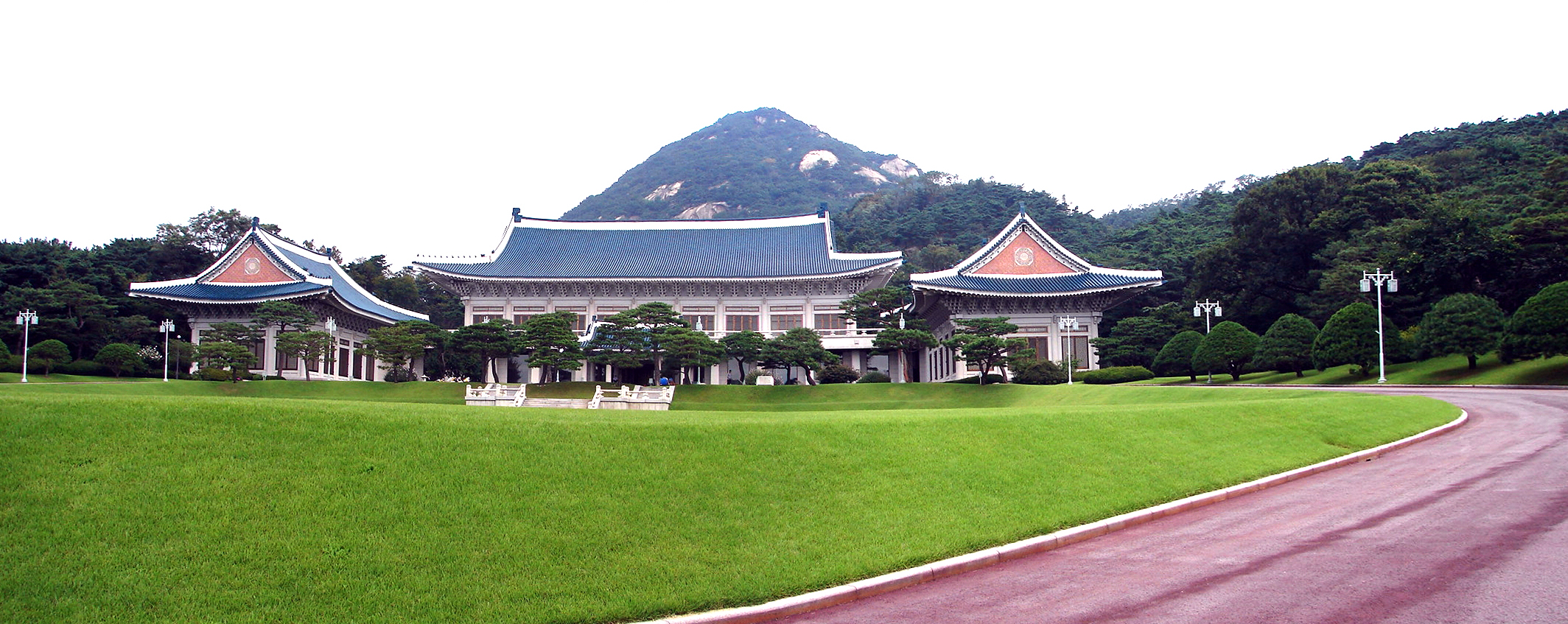 Reception Center at Cheongwadae or "Blue House", the South Korean presidential residence in Seoul South Korea.